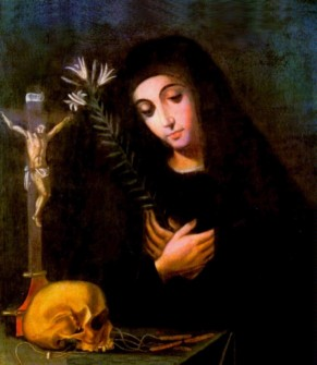 A portrait of Saint Mariana de Jesús (Mary Anne of Paredes), equatorian saint, by Gustavo Amigó. Dated in 17-18th century